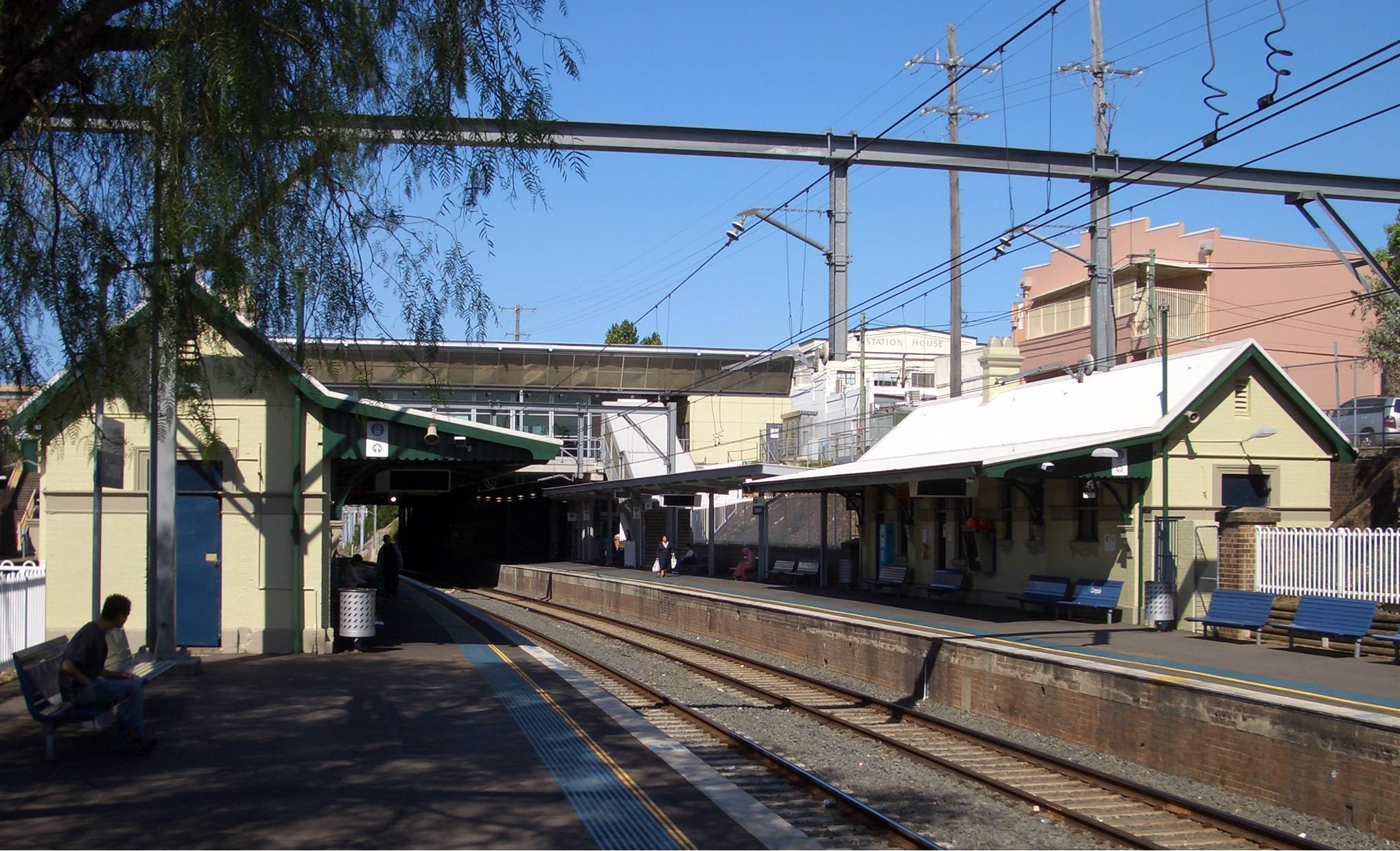 Campsie Railway Station